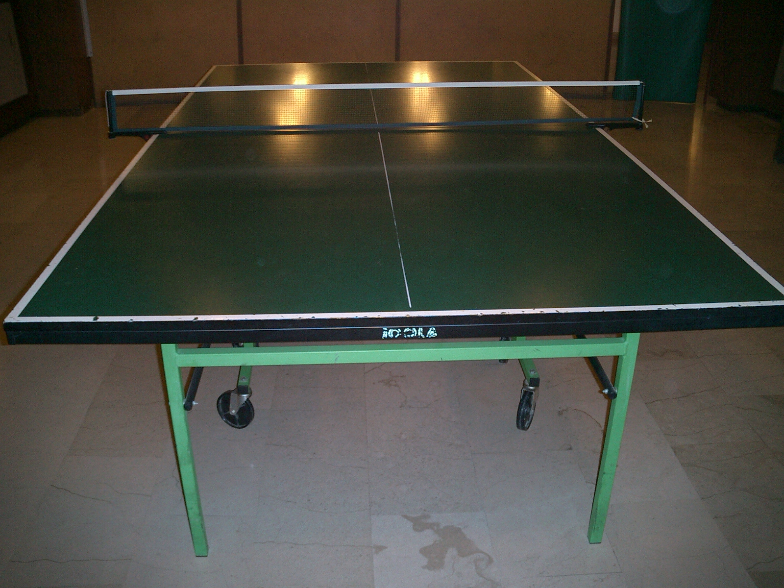 Table tennis standard table